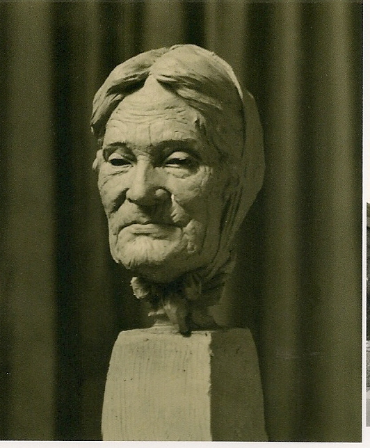 Betsy Baxter, sculpted by William Lamb in Montrose